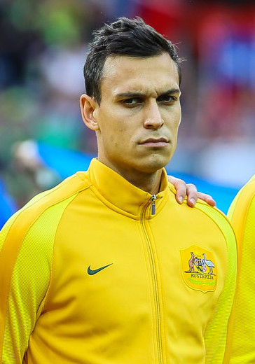 Chile VS. Australia 1 - 1, 25 June 2017